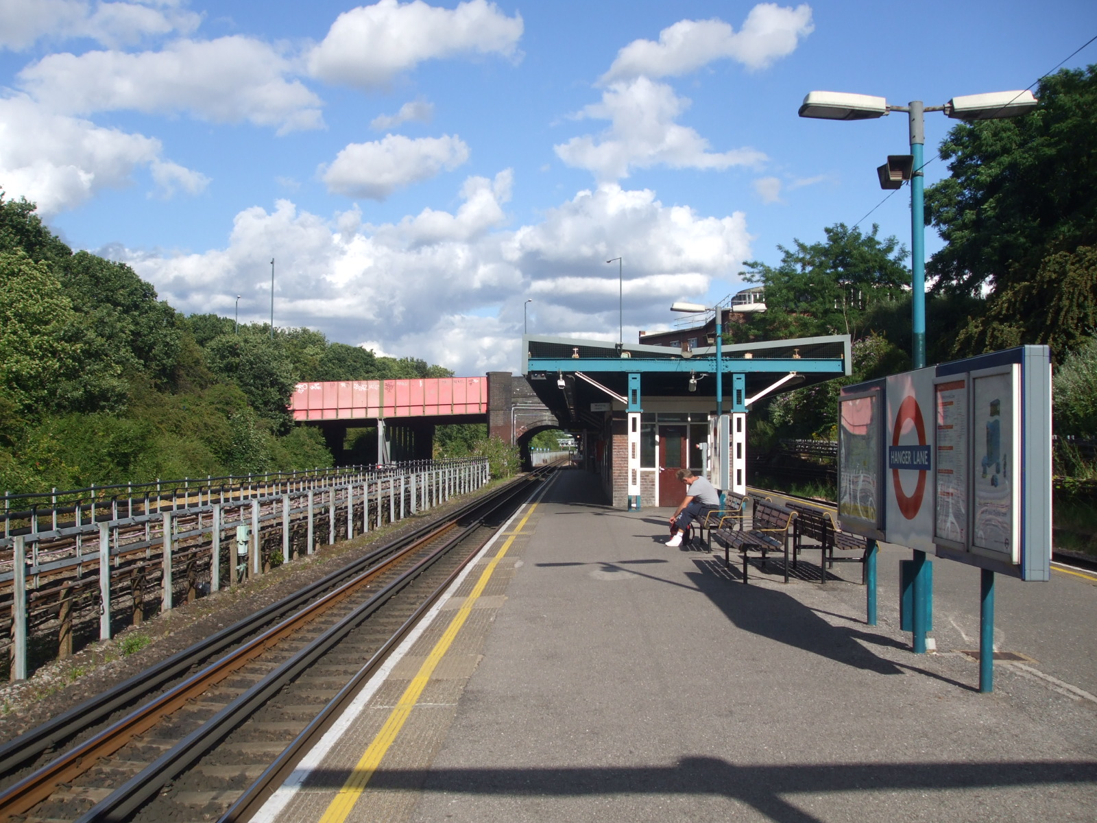 Hanger Lane tube station island platform looking east, with ex-GWR tracks visible on the left